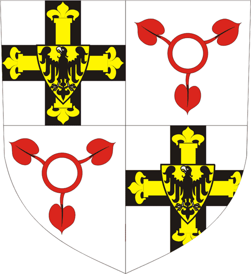 Teutonic Order - Coat of Arms of the Grandmaster Ludolf König